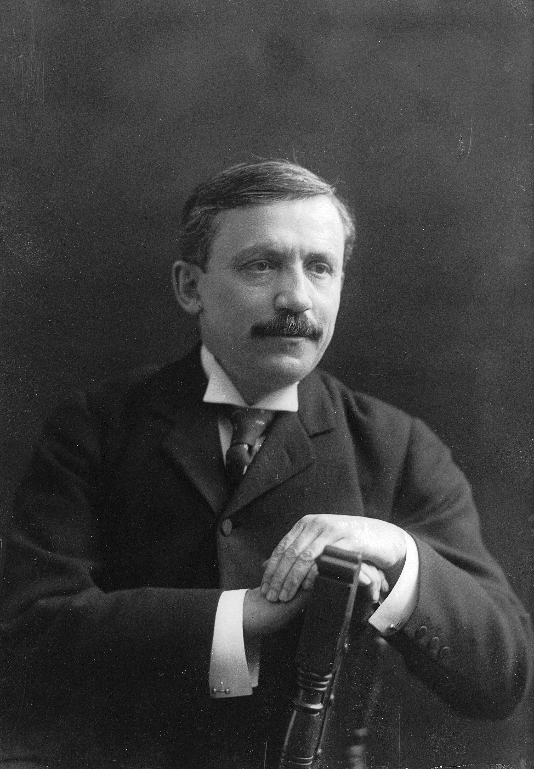 Photograph : Charles R. Hosmer, Montreal, QC, 1897; Wm. Notman & Son; 1897, 19th century; Silver salts on glass - Gelatin dry plate process; 17 x 12 cm; Purchase from Associated Screen News Ltd.; II-118415; McCord Museum.